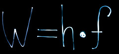 That's why I painted the formula for the energy of a photon with light. I guess you need some knowledge in physics to understand the whole idea ;)